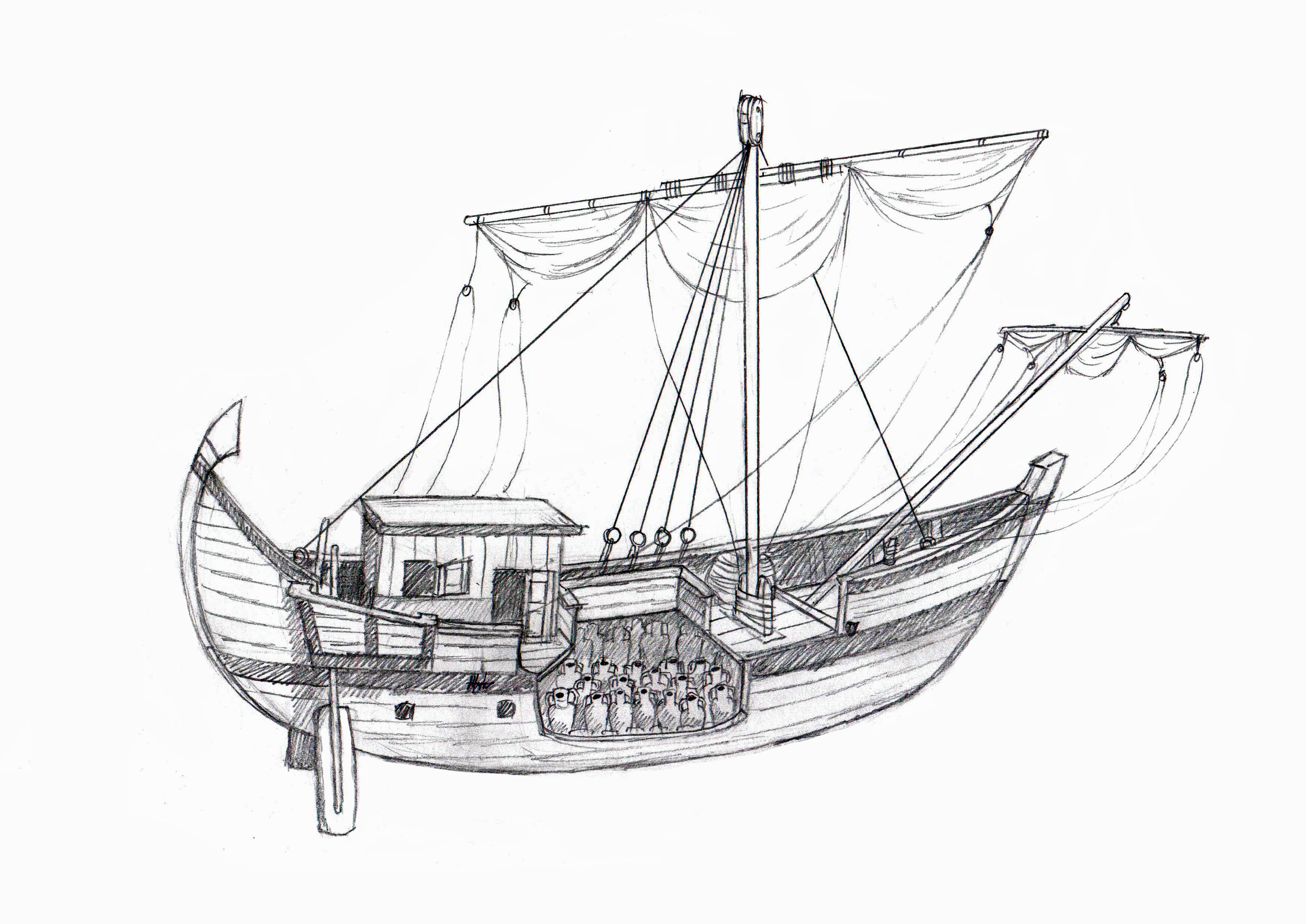 An approximate diagram of a Roman trade ship carrying transport amphorae.